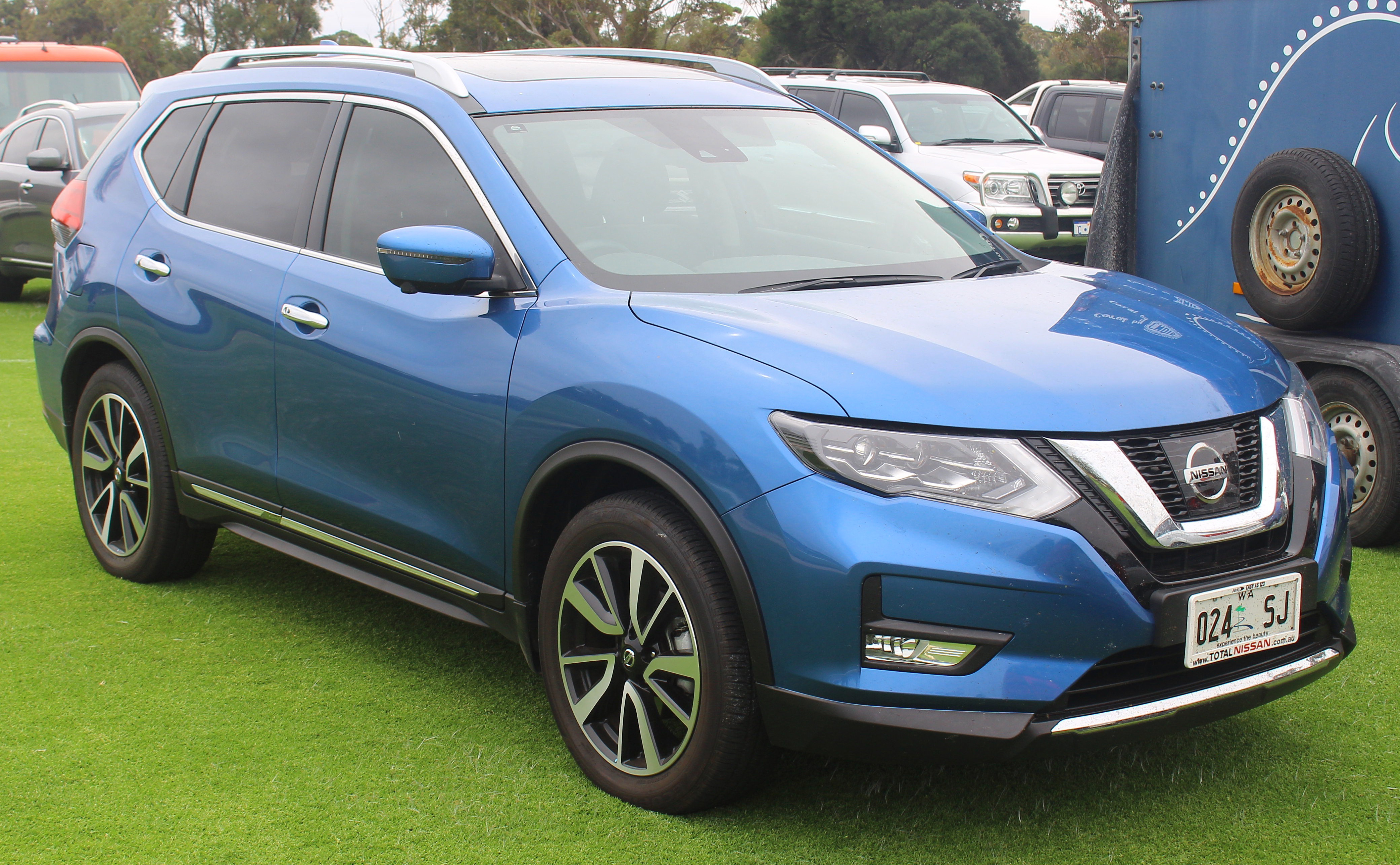 2017 Nissan X-Trail (T32) Ti 4WD wagon. Photographed in Swanbourne, Western Australia, Australia.